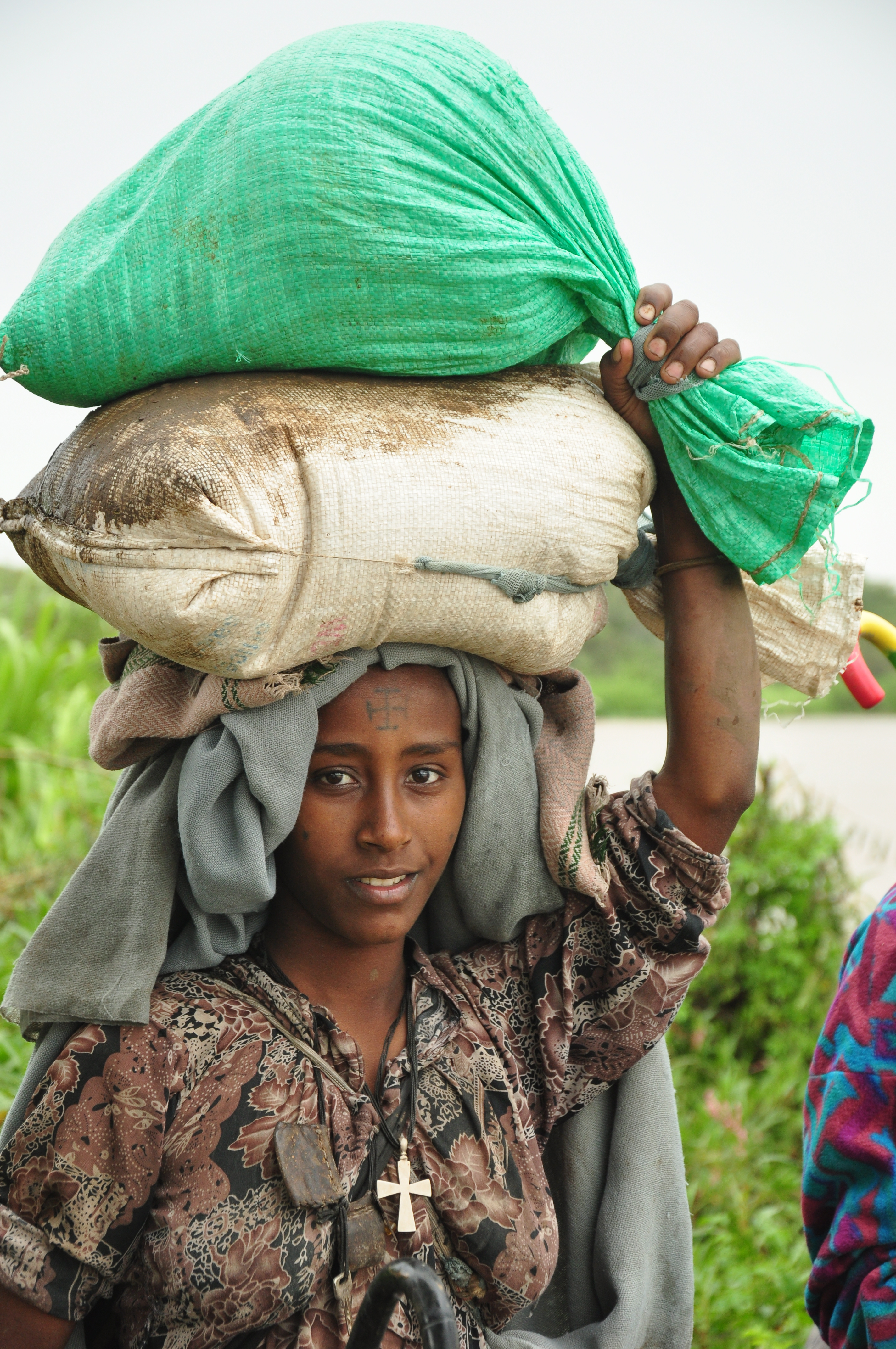 Girl carrying food to market in rural ethiopia This is an image of food from Ethiopia